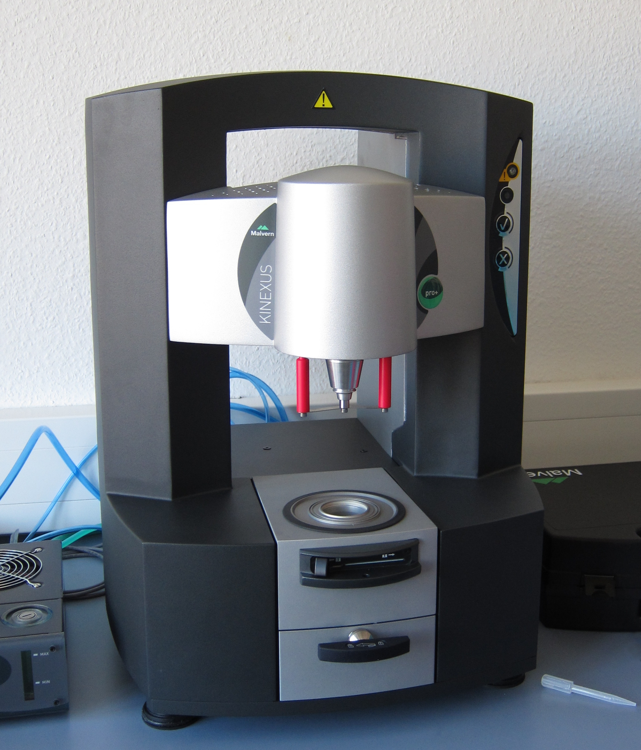 A rheometer — a device used to characterize the viscous behavior of non-Newtonian fluids. A variety of conical and cylindrical rotors can be used in this machine. This model is able to measure torque with an resolution of 0.1 nNm. It is in use at the Otto-von-Guericke Universität Magdeburg, Germany.